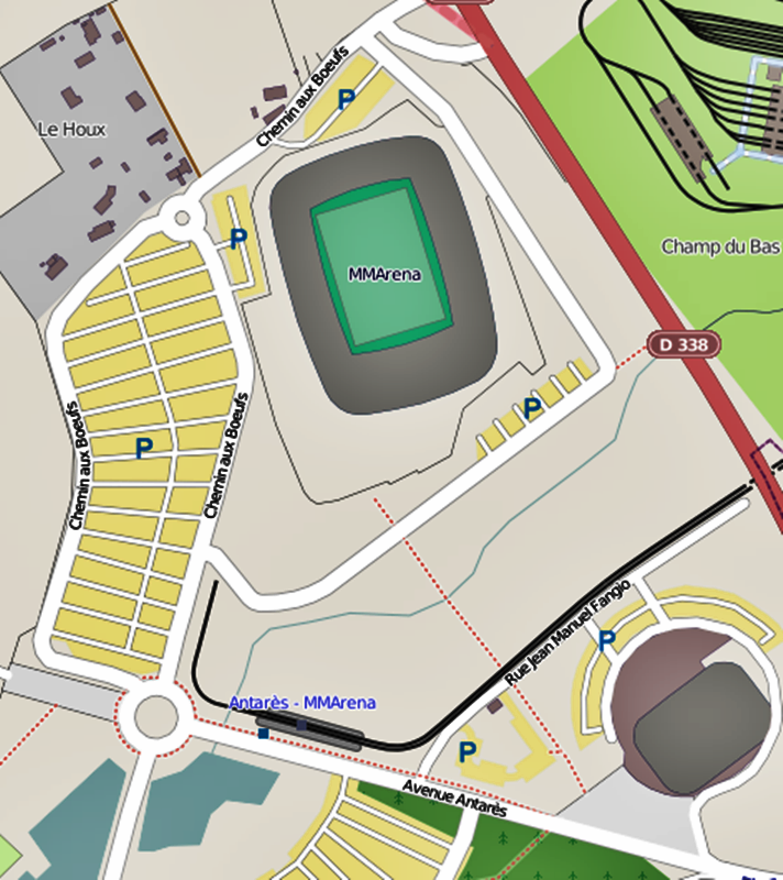 This map may be incomplete, and may contain errors. Don't rely solely on it for navigation.